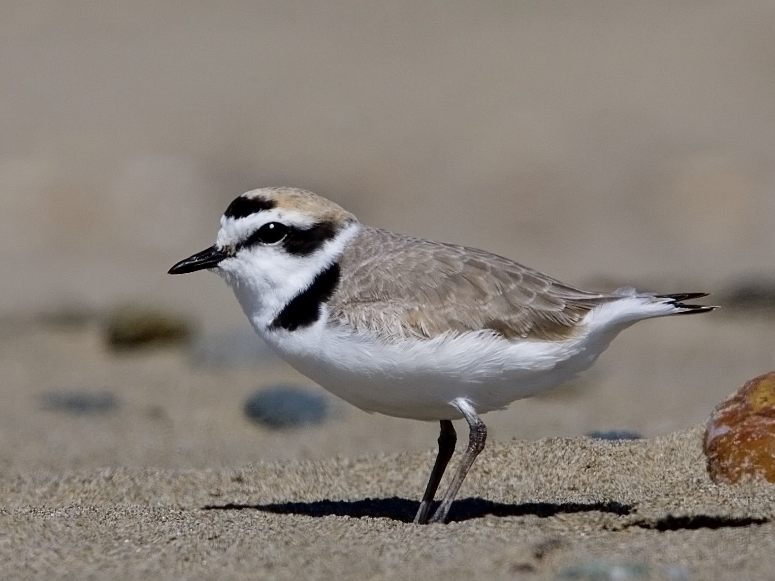 Western Snowy Plover, bird on Morro Strand State Beach, Morro Bay, CA